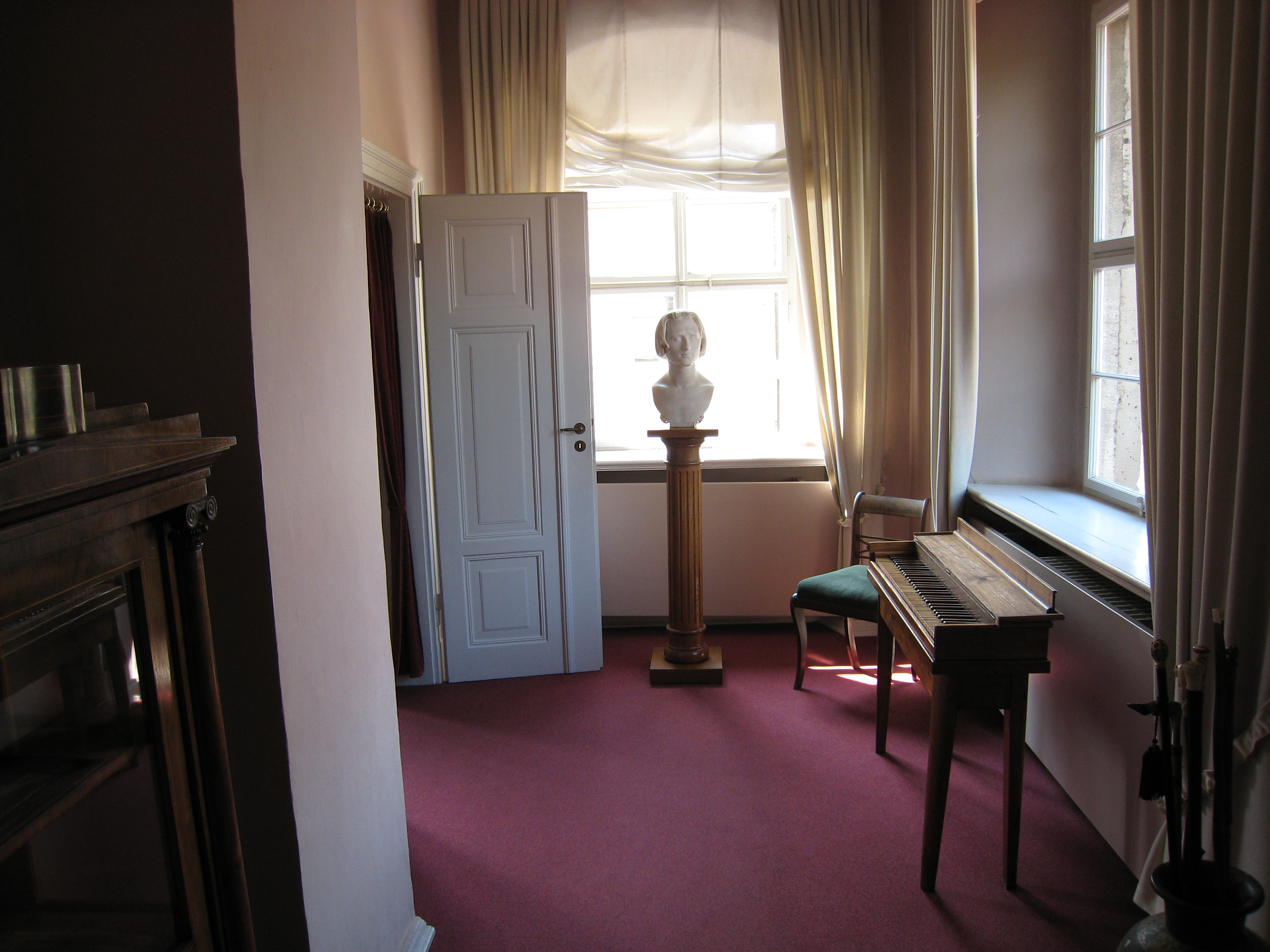 Liszthaus Weimar 5